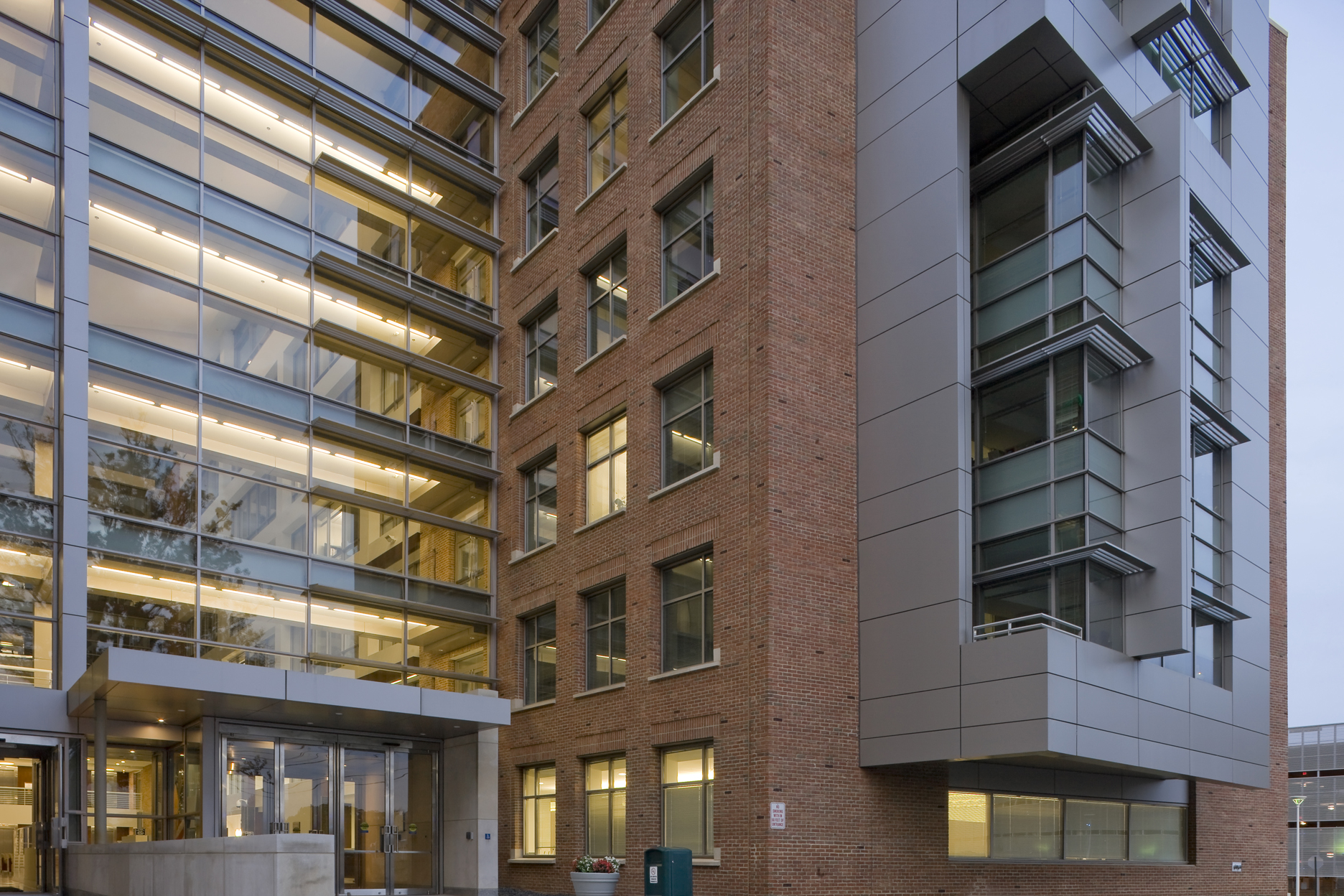 FDA Building 51 houses the Center for Drug Evaluation and Research. The FDA campus is located at 10903 New Hampshire Ave., Silver Spring, MD 20993.